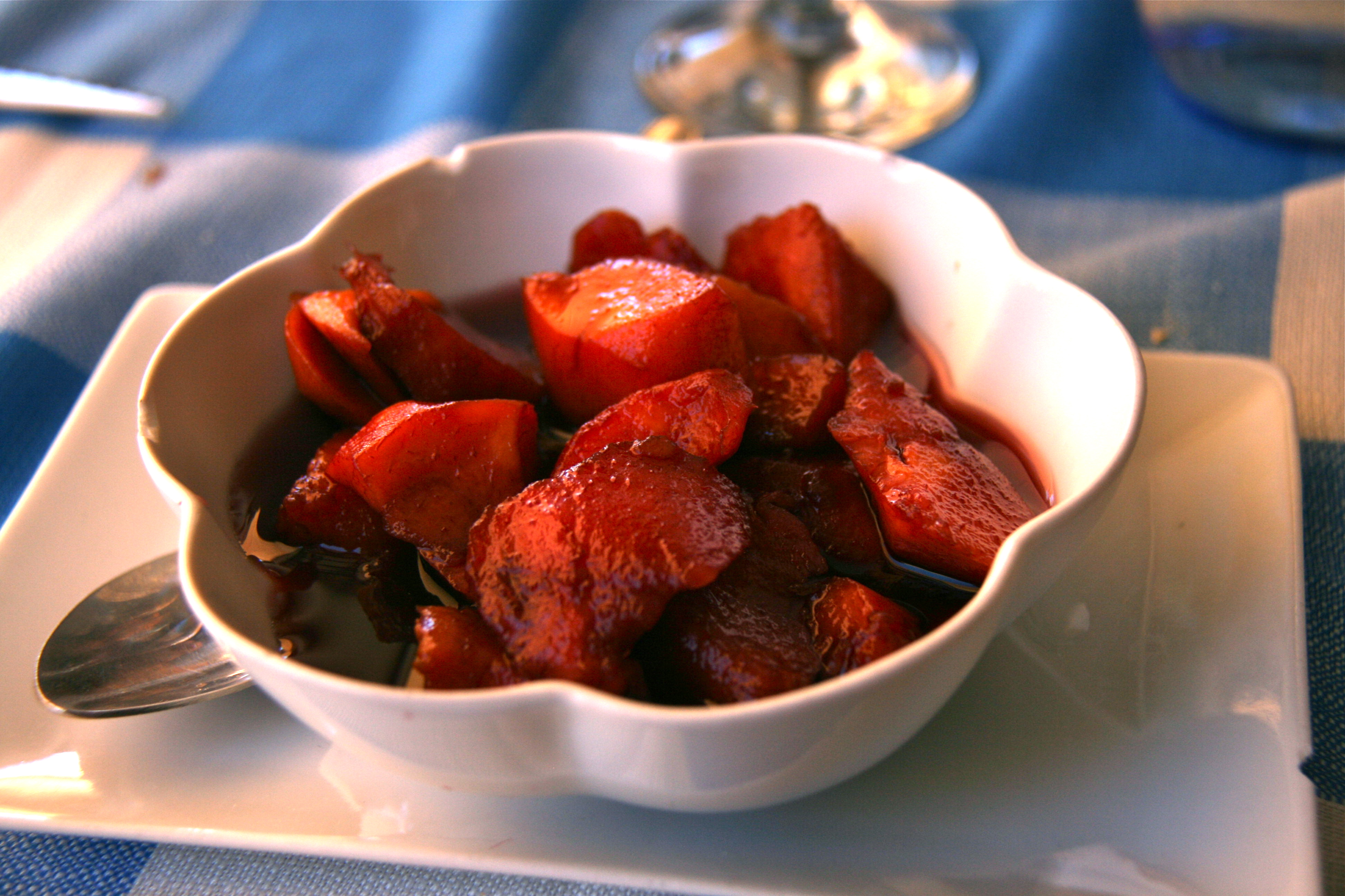 Apricots in wine (Toro)